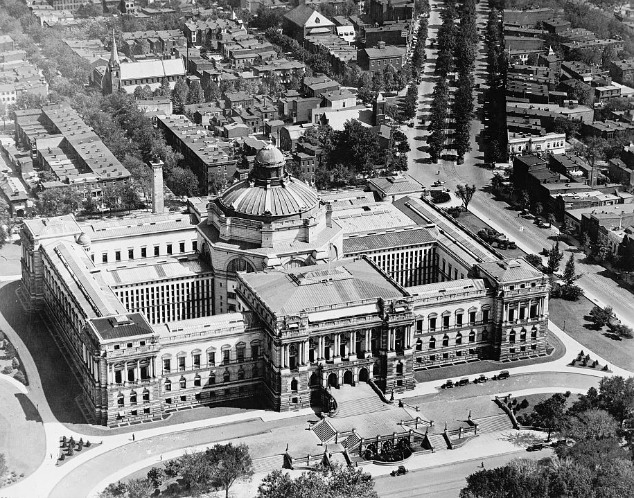 [Aerial view of Library of Congress, Washington, D.C.]